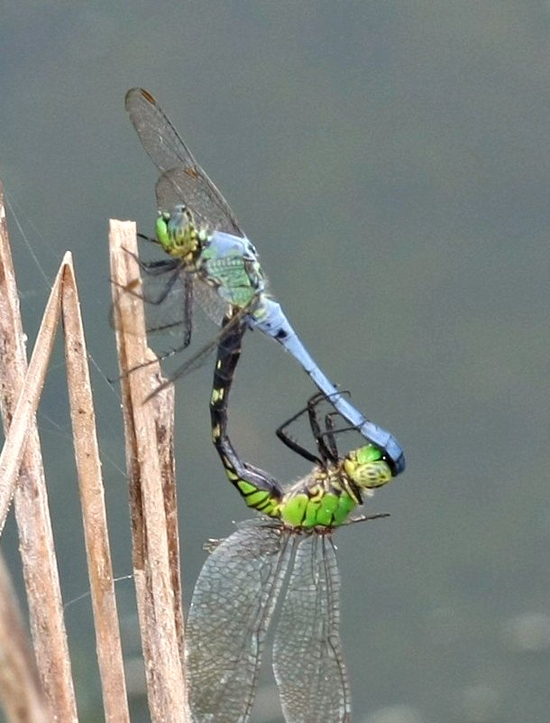 Eastern pondhawk (erythemis simplicicollis). Fall is coming so the dragonflies are really making sure they leave offspring for next year.